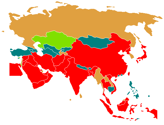 A map showing the use of death penalty in Asia as of 31 December 2015: English (en): Death Penalty Asia Map Legal form of punishment for certain offenses Legal form of punishment but no executions in the last 10 years and are believed to have a policy or established practice of not carrying out executions Abolished for crimes not committed in exceptional circumstances (such as crimes committed in time of war) Abolished for all crimes